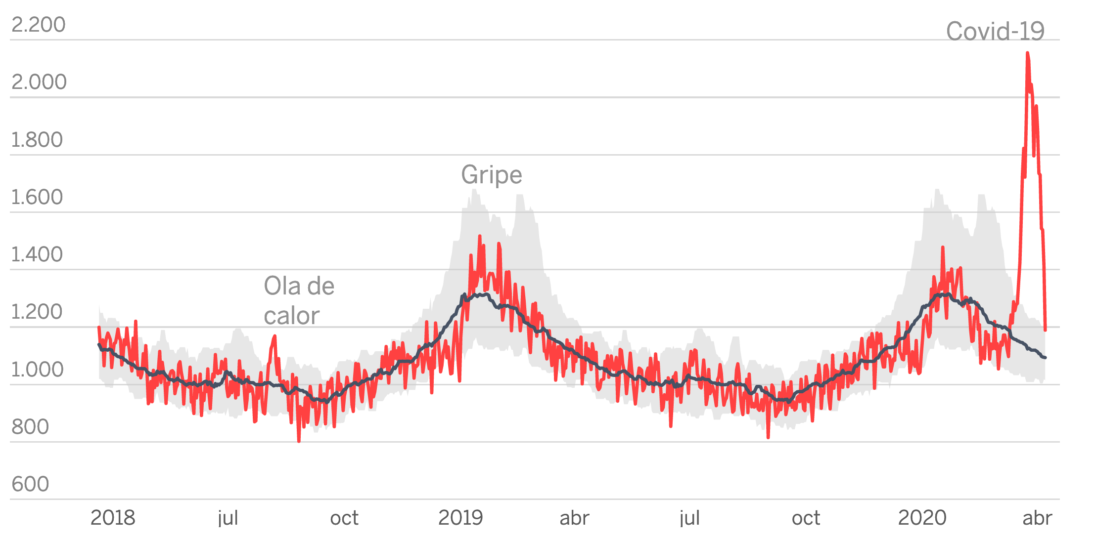 Shows expected mortality (black, with confidence interval in grey) and observed mortality (red). Previous peaks in death rate are labeled "Ola de Calor" (heat wave) and "Gripe" (flu). According to the analysis, coronavirus has caused five times as many excess deaths as the 2019–20 flu season despite the national lockdown.